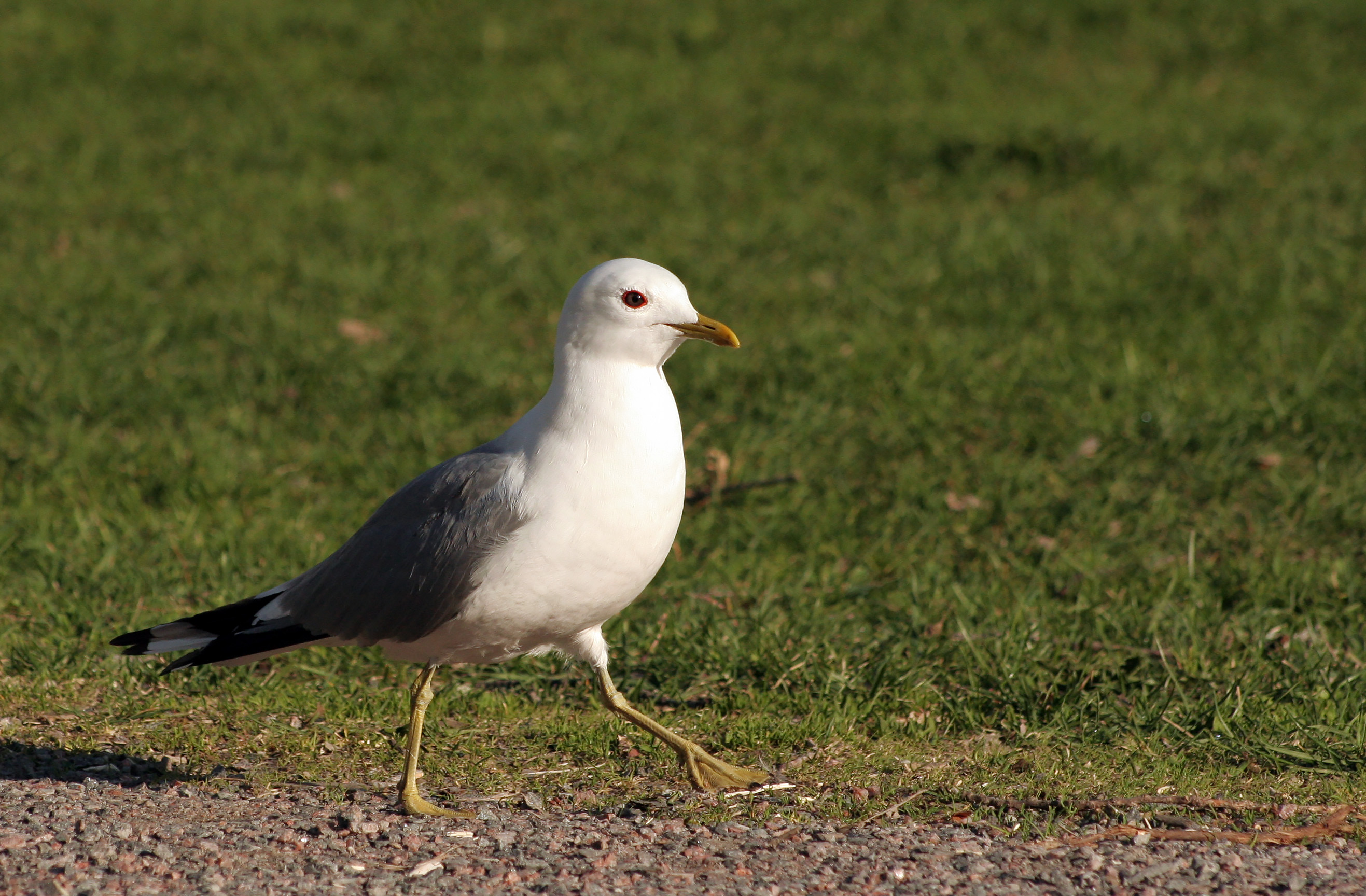 Common gull